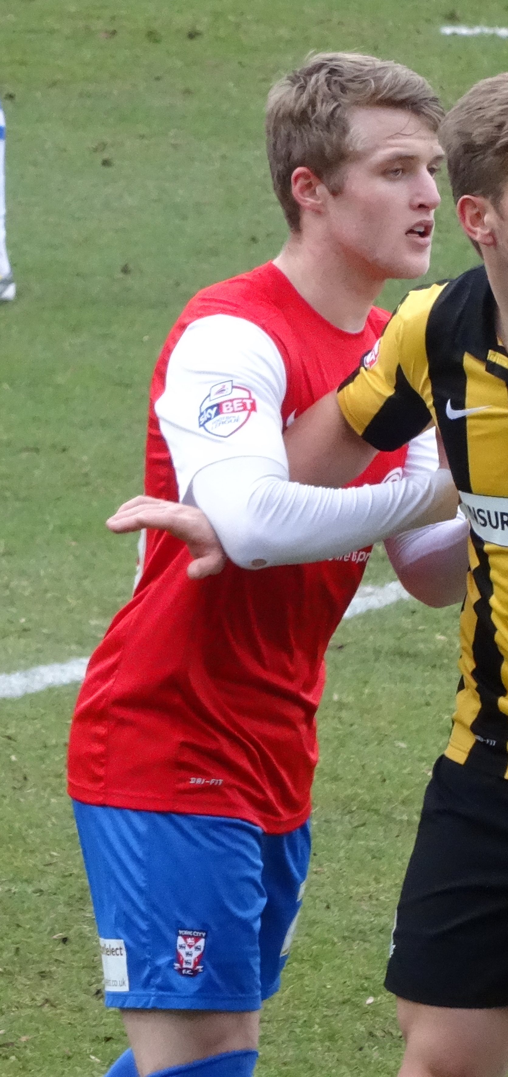 Will Hayhurst playing for York City against Southend United at Bootham Crescent, York on 22 February 2014